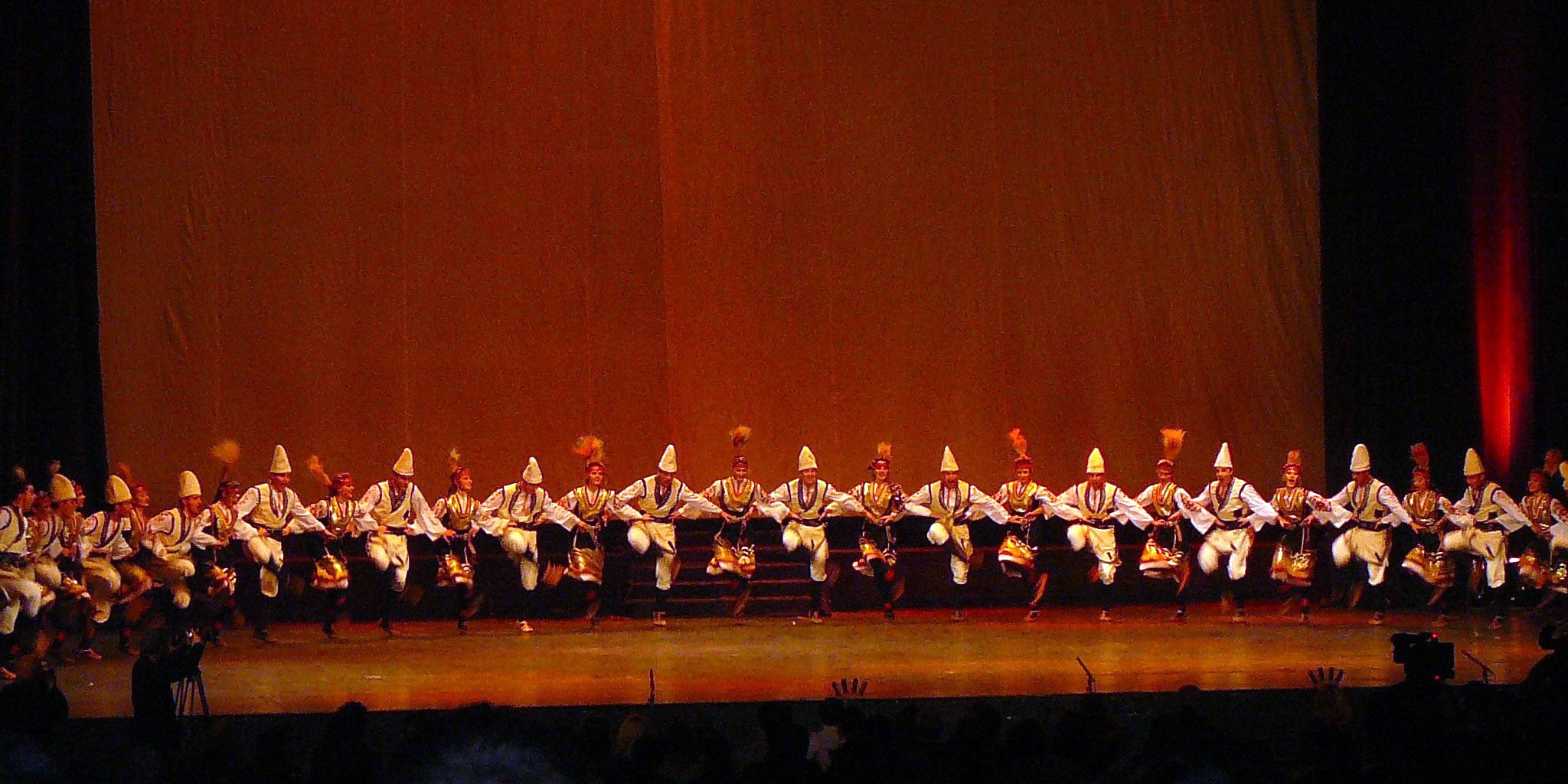 National Folklore Ensamble Bulgare, Bulgaria